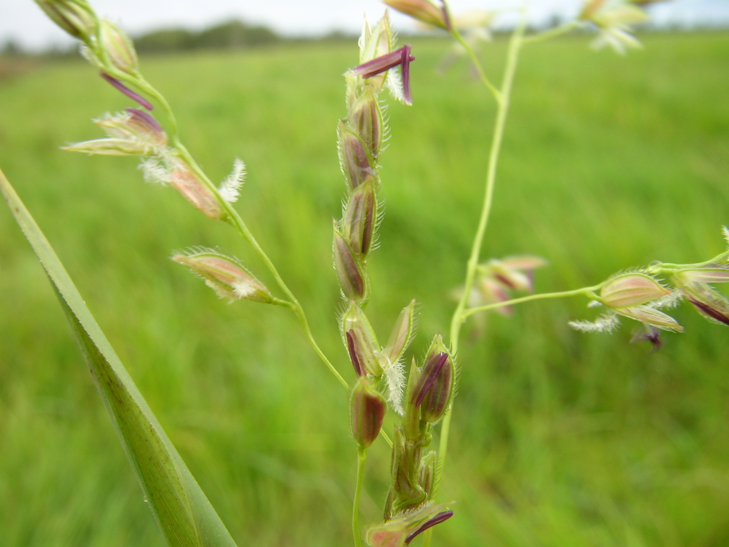 Leersia hexandra